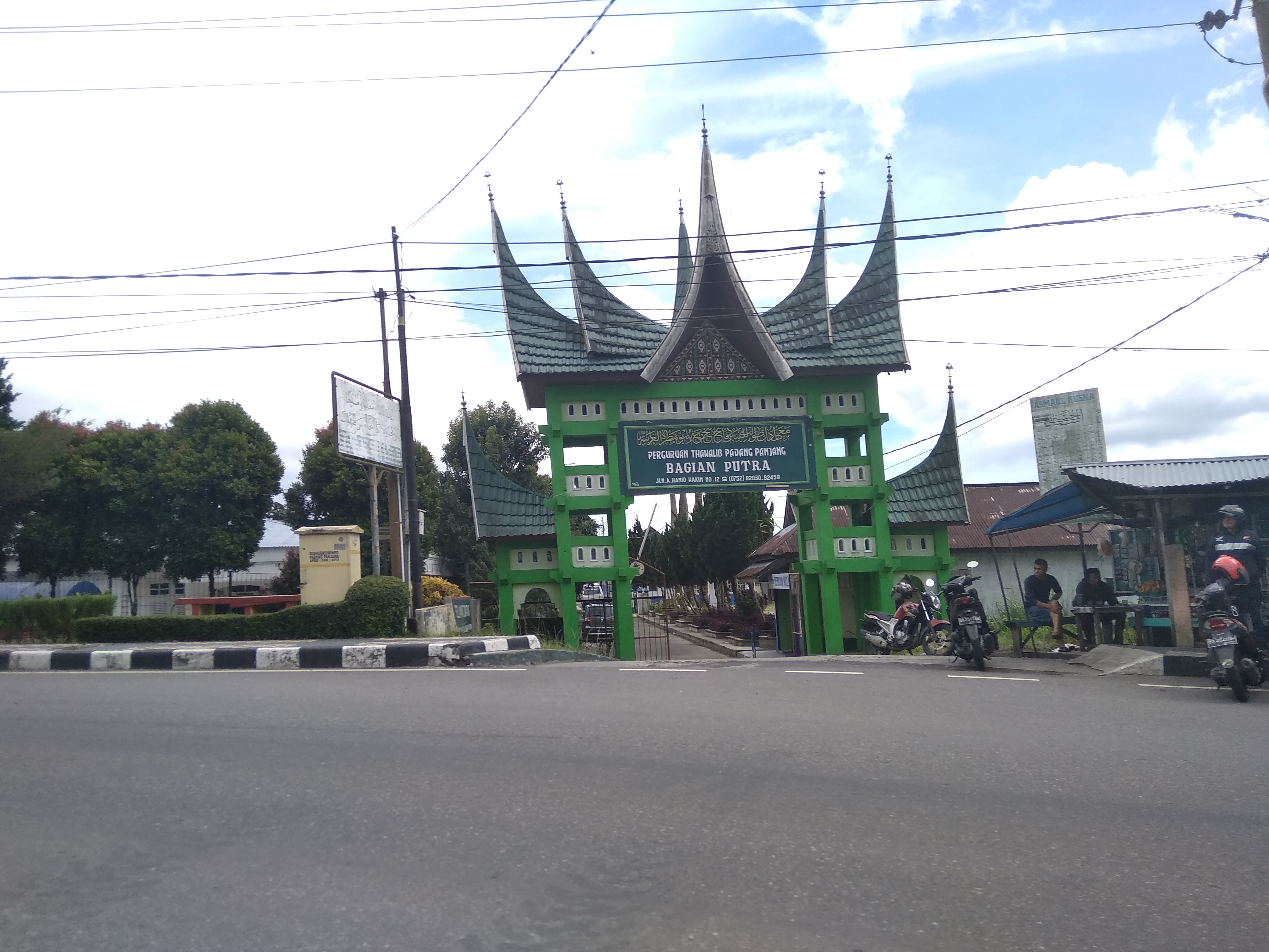 Thawalib College Padang Panjang, a leading Islamic educational institution in West Sumatra.